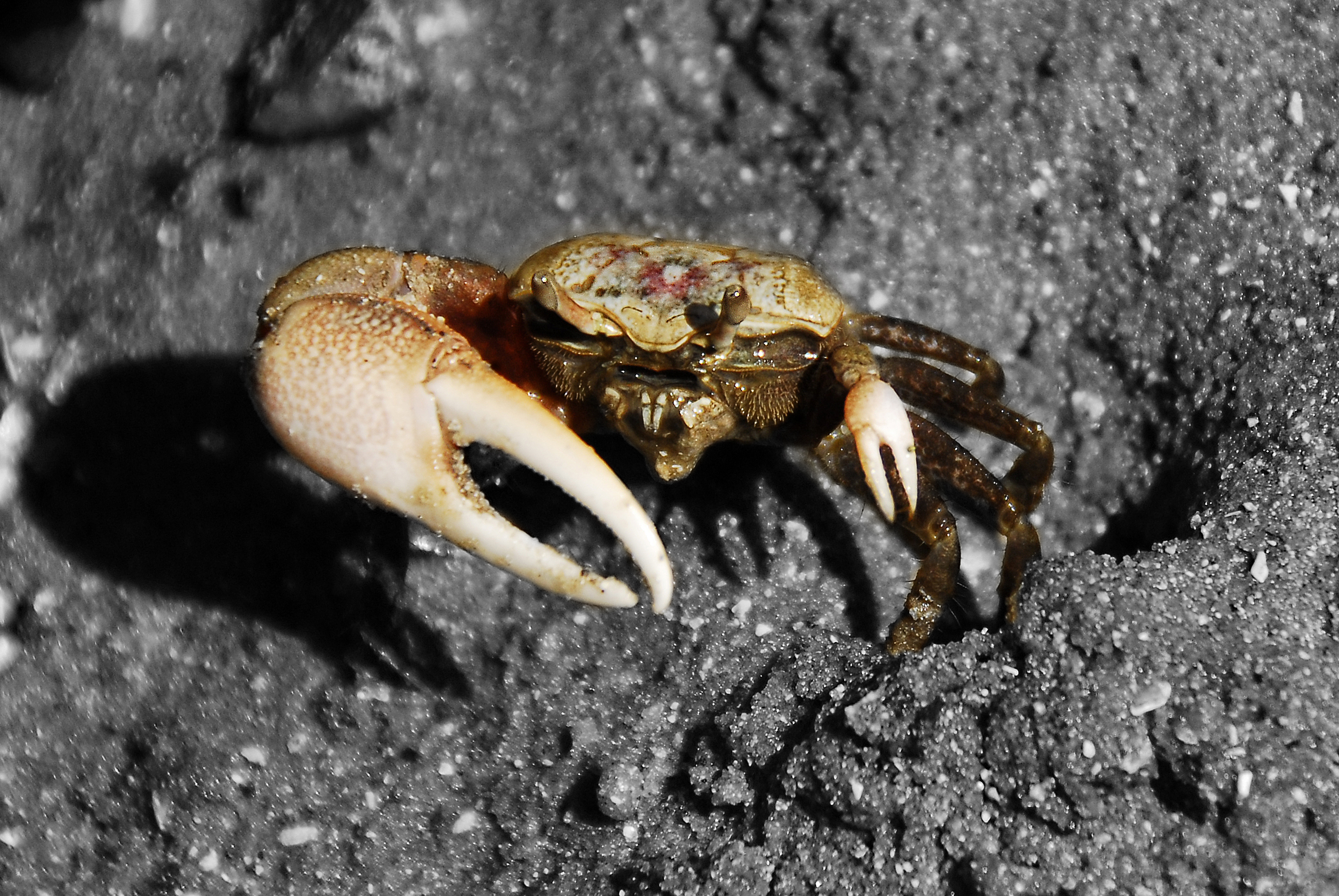 1/2 inch of serious defensive behavior. This male Fiddler Crab did not appreciate me invading his space. This photo was taken at low tide in the Indian River Lagoon muck bed :) The background desaturated with photoshop.